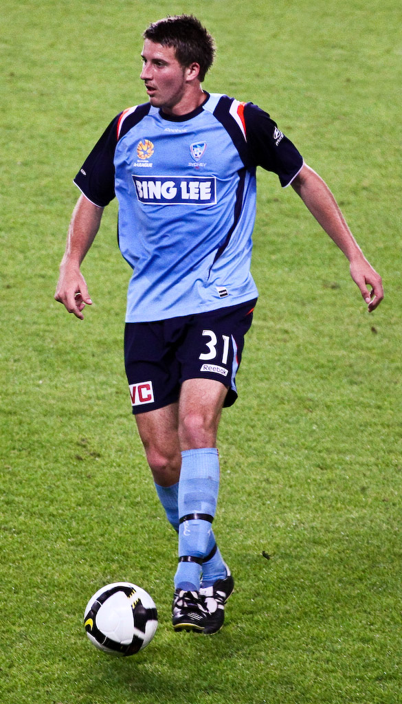 Anthony Golec playing for Sydney FC against the Wellington Phoenix in round 11 of the 08/09 A-League.